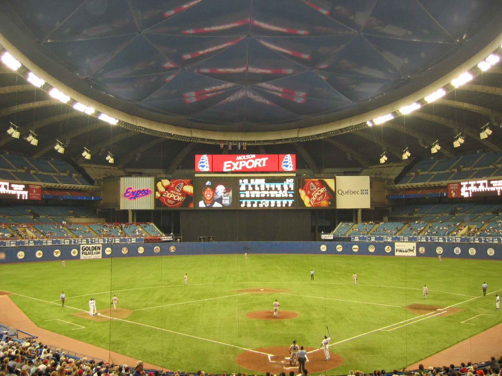 MLB game between the Houston Astros and the Montreal Expos at Olympic Stadium in Montreal, on August 13, 2004.